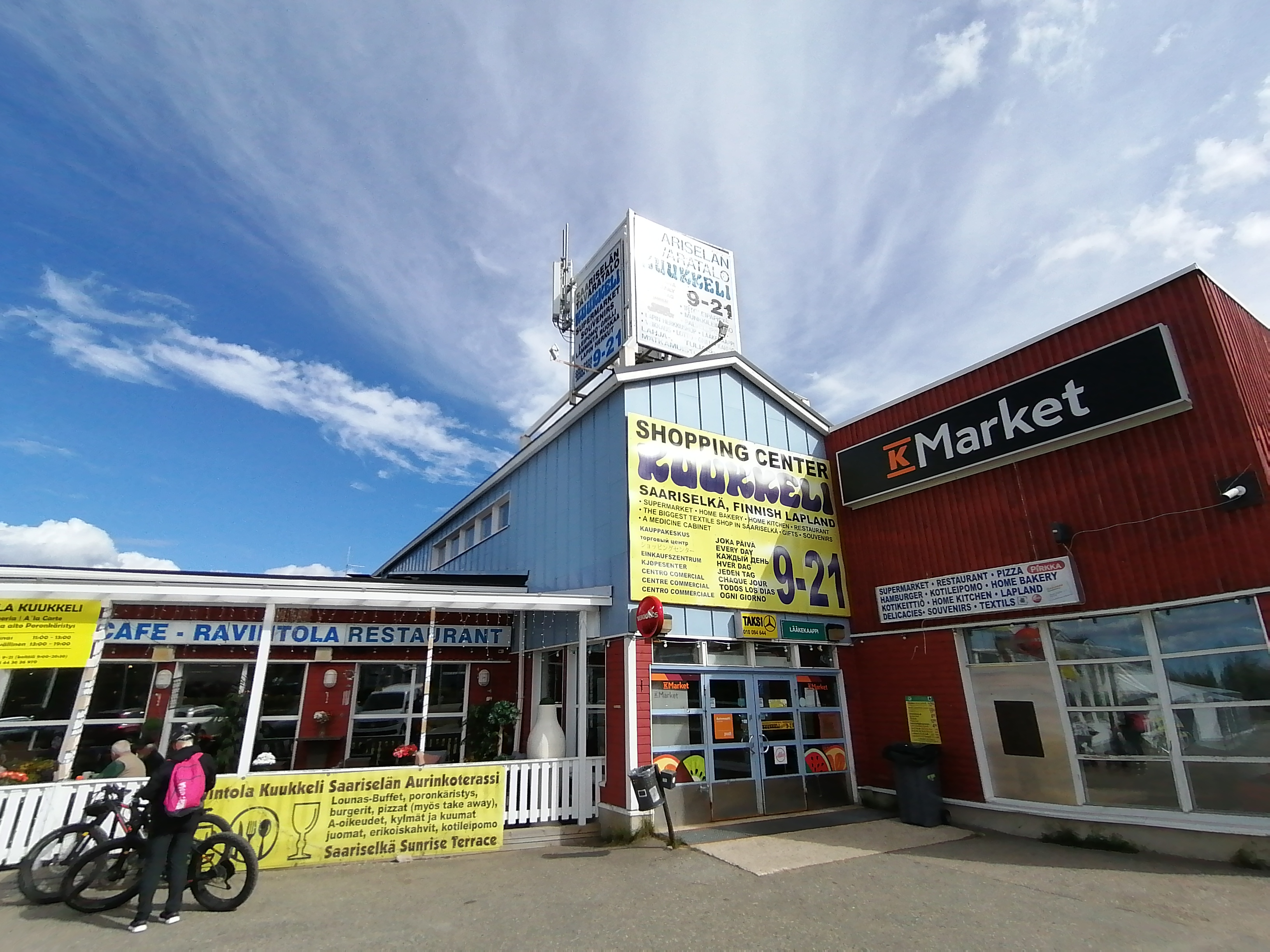 This image shows the only Shopping center and market at Inari Saariselkä, Lapland, Finland